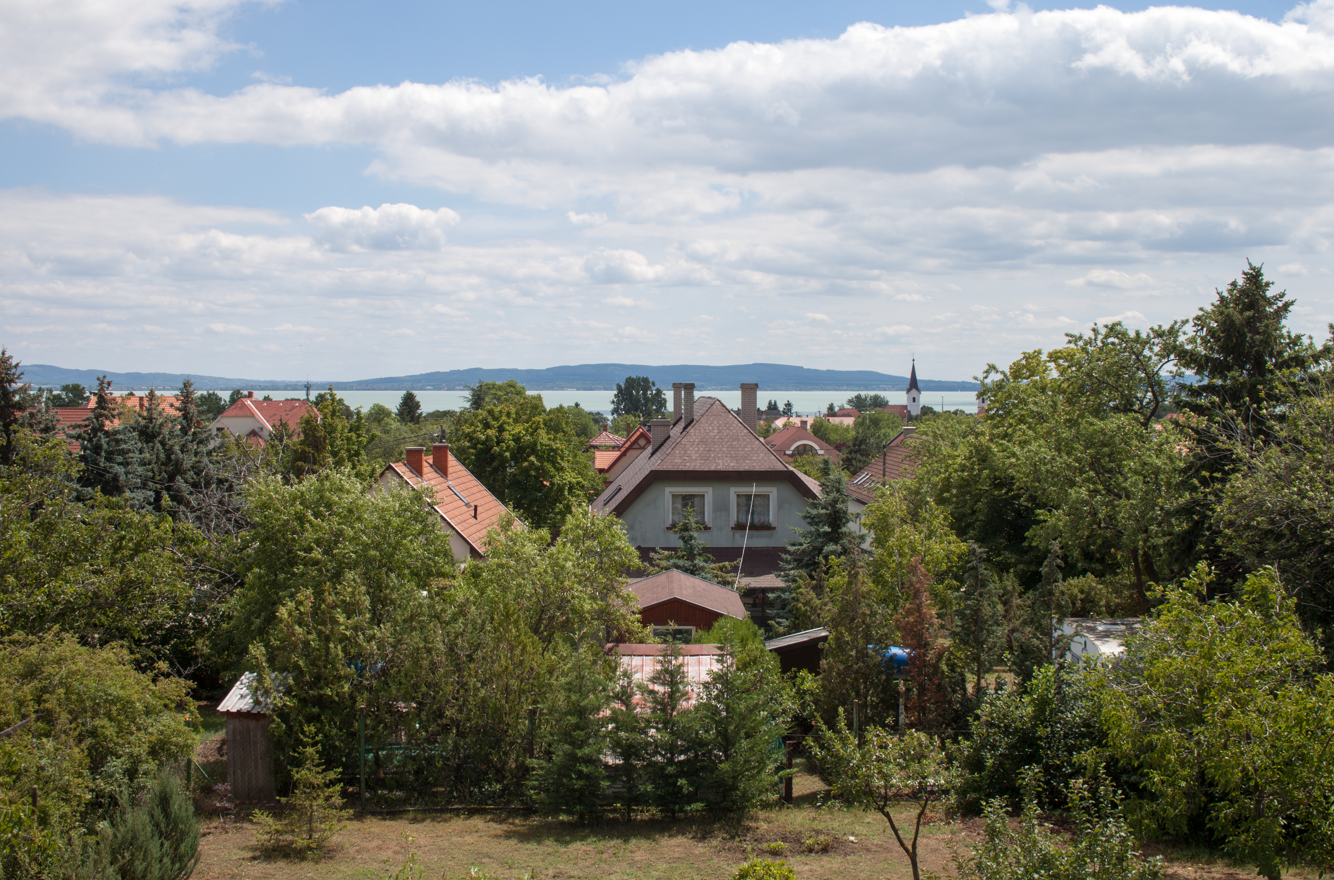 Balatonakali, view towards the lake from the holiday houses